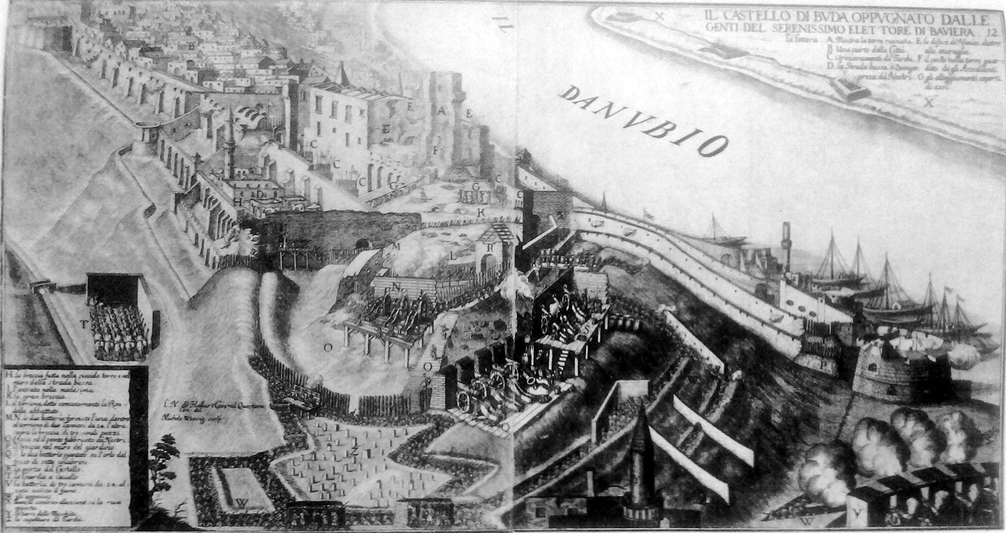 Buda in 1686, from Gellérthegy, by Wening, Hallar